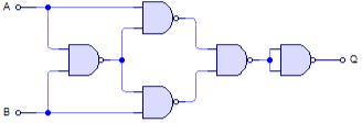 Made in LiveWire 1.10 History of Image:XNOR Using NAND.jpg 2006-05-29T07:45:41Z Bkell (Talk | contribs) ( badJPEG ) 2005-12-25T04:44:50Z Jjbeard (Talk | contribs) (Made in LiveWire 1.10)